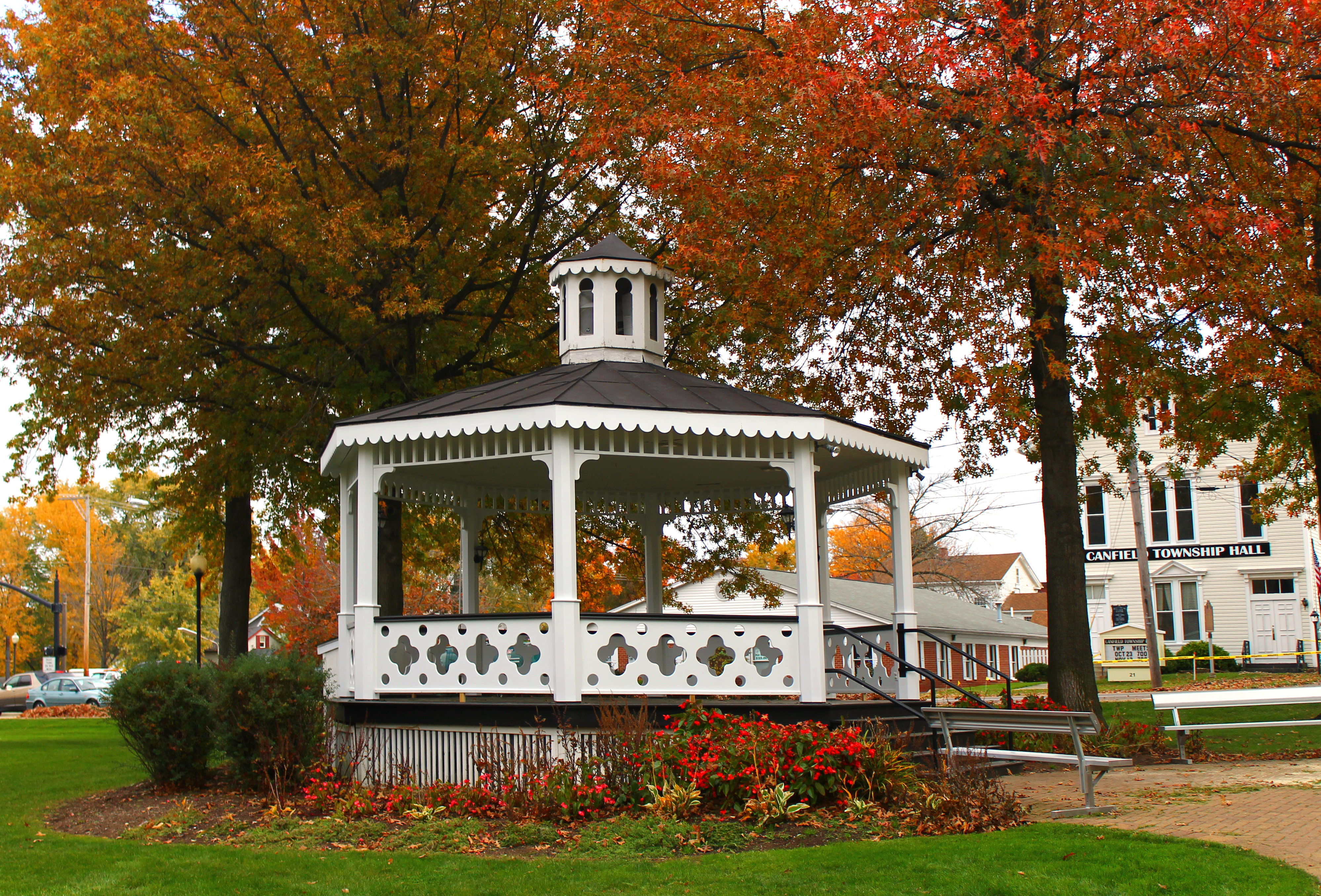 The Gazebo on the Souther Green of Canfield's central square. The town center is a venue for many community activities.